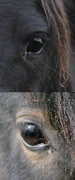 Comparison of the faces of a dark bay/brown and a black horse.